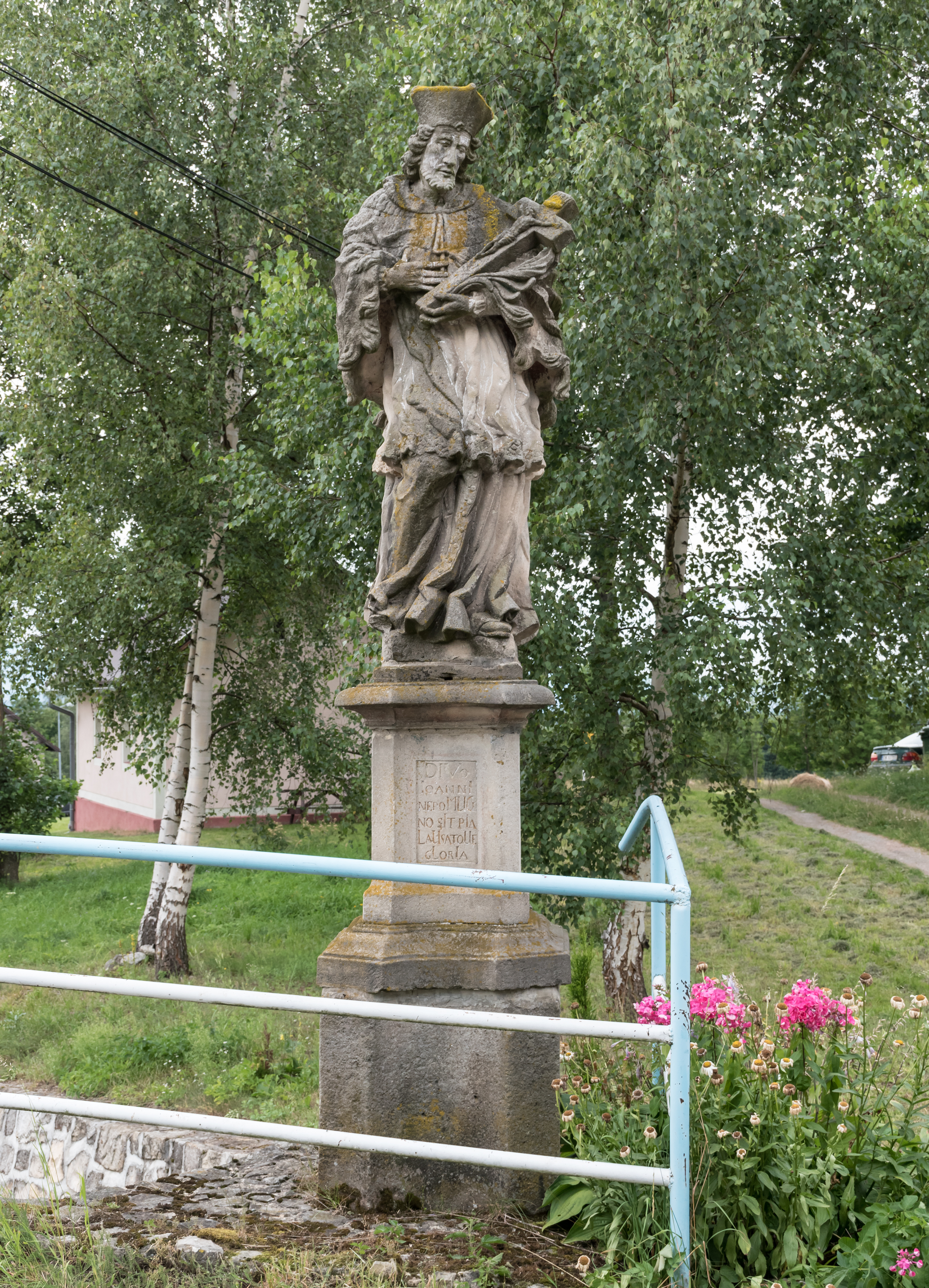 John of Nepomuk sculpture in Nowa Wieś